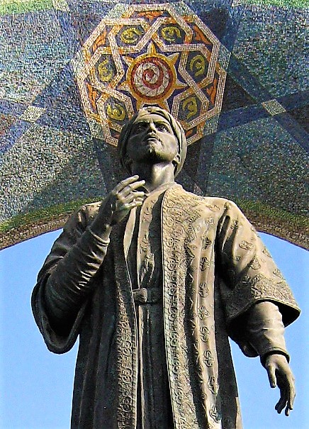 Rudaky dushanbe (Cropped)